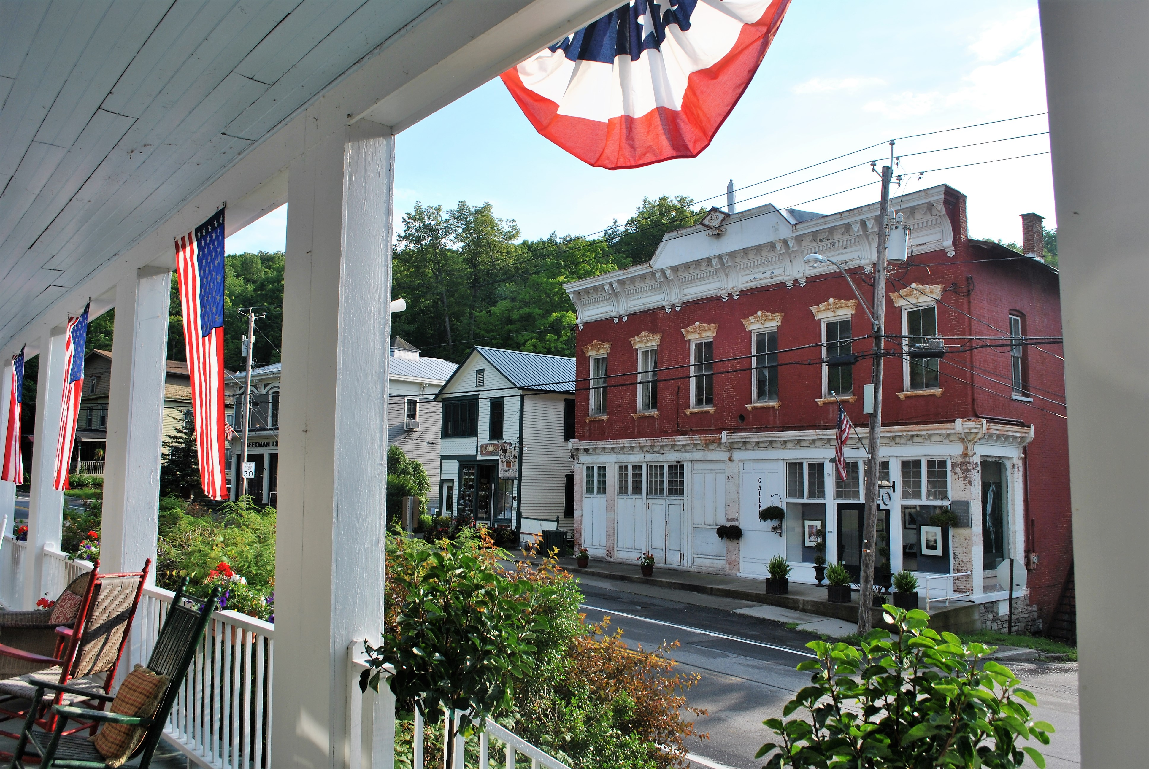 Image originally published in Queer Places: Retracing the Steps of LGBTQ people around the World Authored by Elisa Rolle